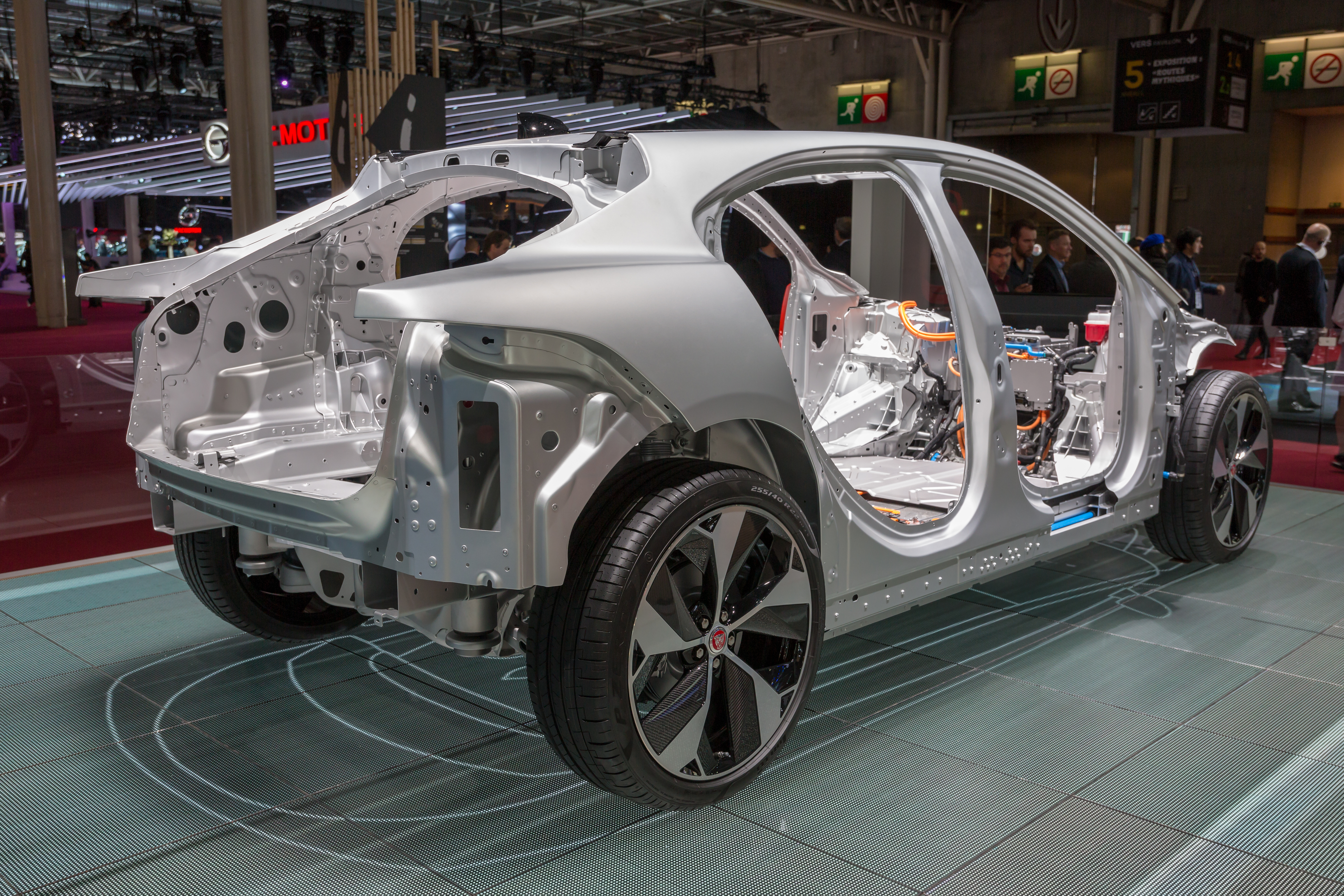 Jaguar I-Pace chassis at Paris Motor Show 2018